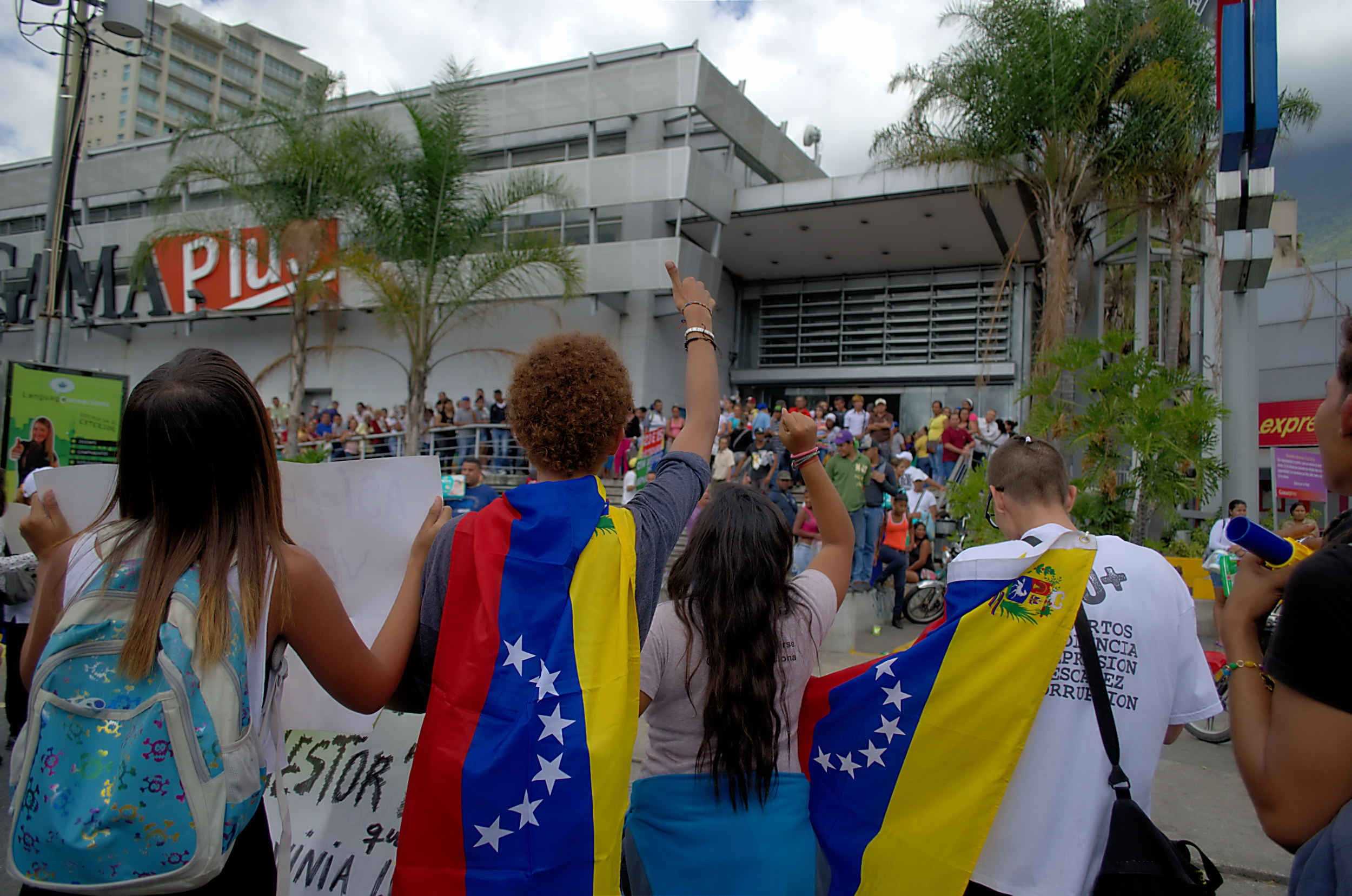 Protesters showing signs and yelling invitations to the protest to the people in lines waiting to buy basic goods. These lines lasted several hours and had become a frequent situation all over Venezuela in 2015 since the socialist country reached new levels in its economic crisis.